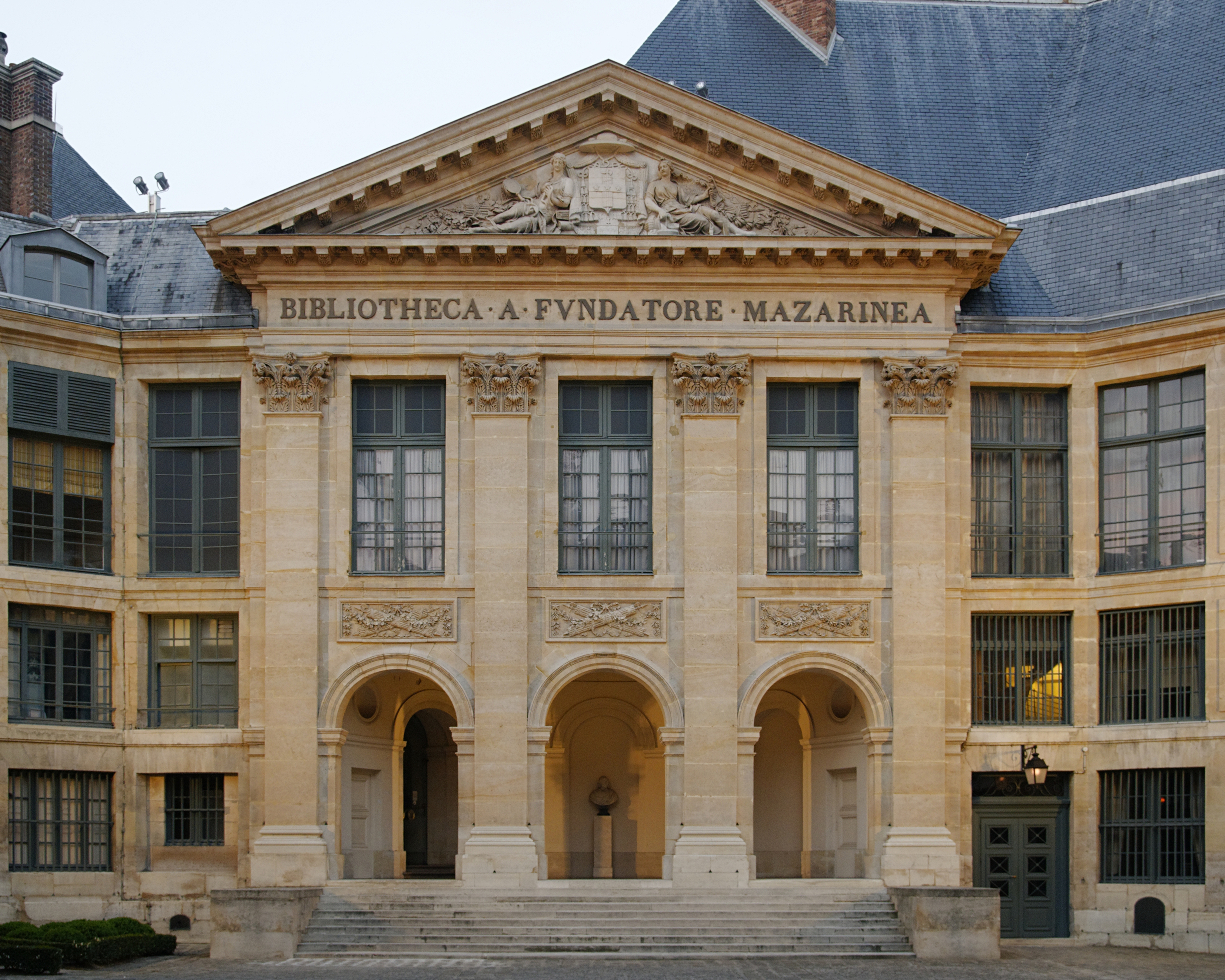 Pediment of the Bibliothèque Mazarine, Paris.